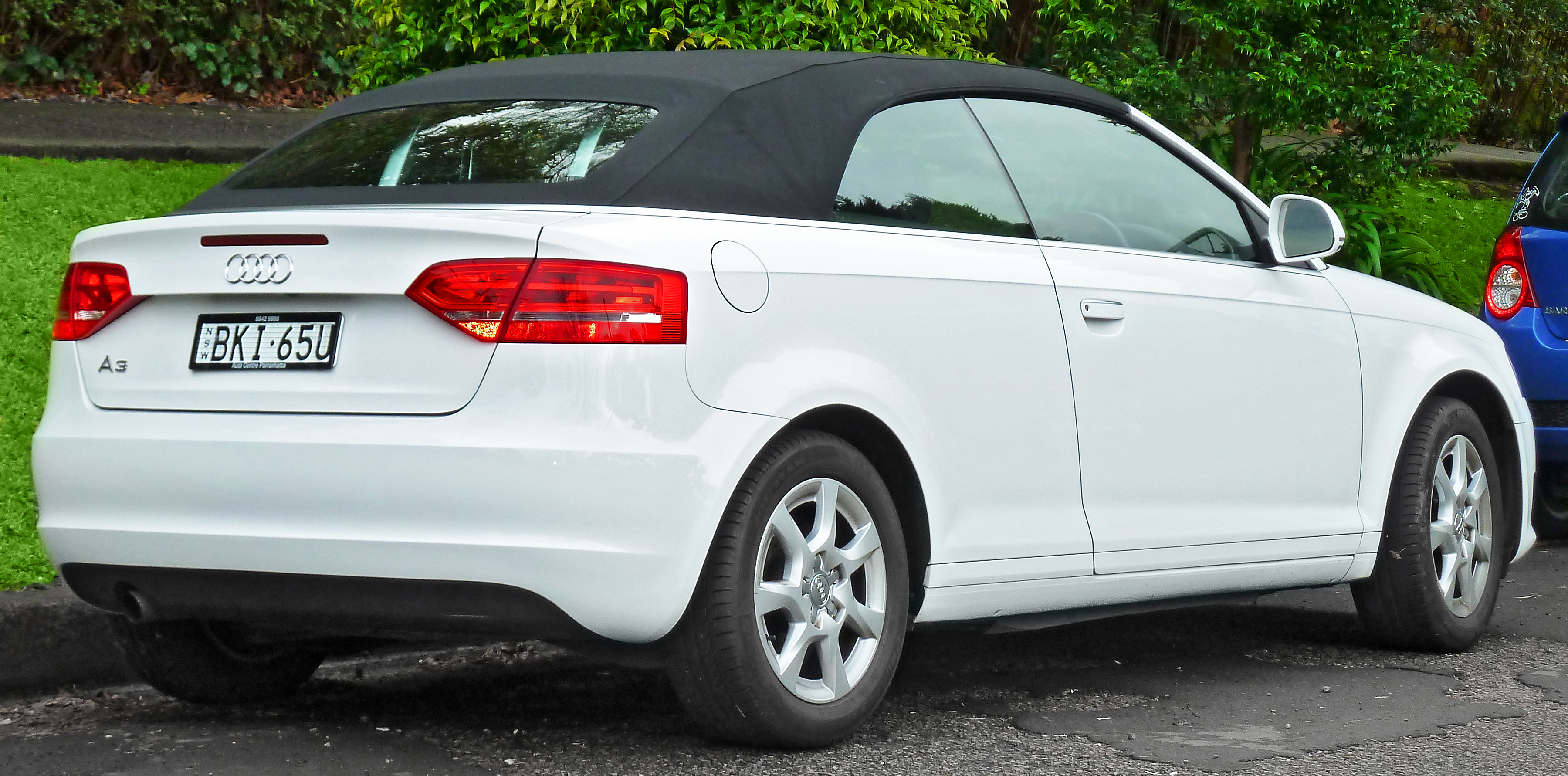 2009 Audi A3 (8P7) 1.6 Attraction convertible. Photographed in Lindfield, New South Wales, Australia.